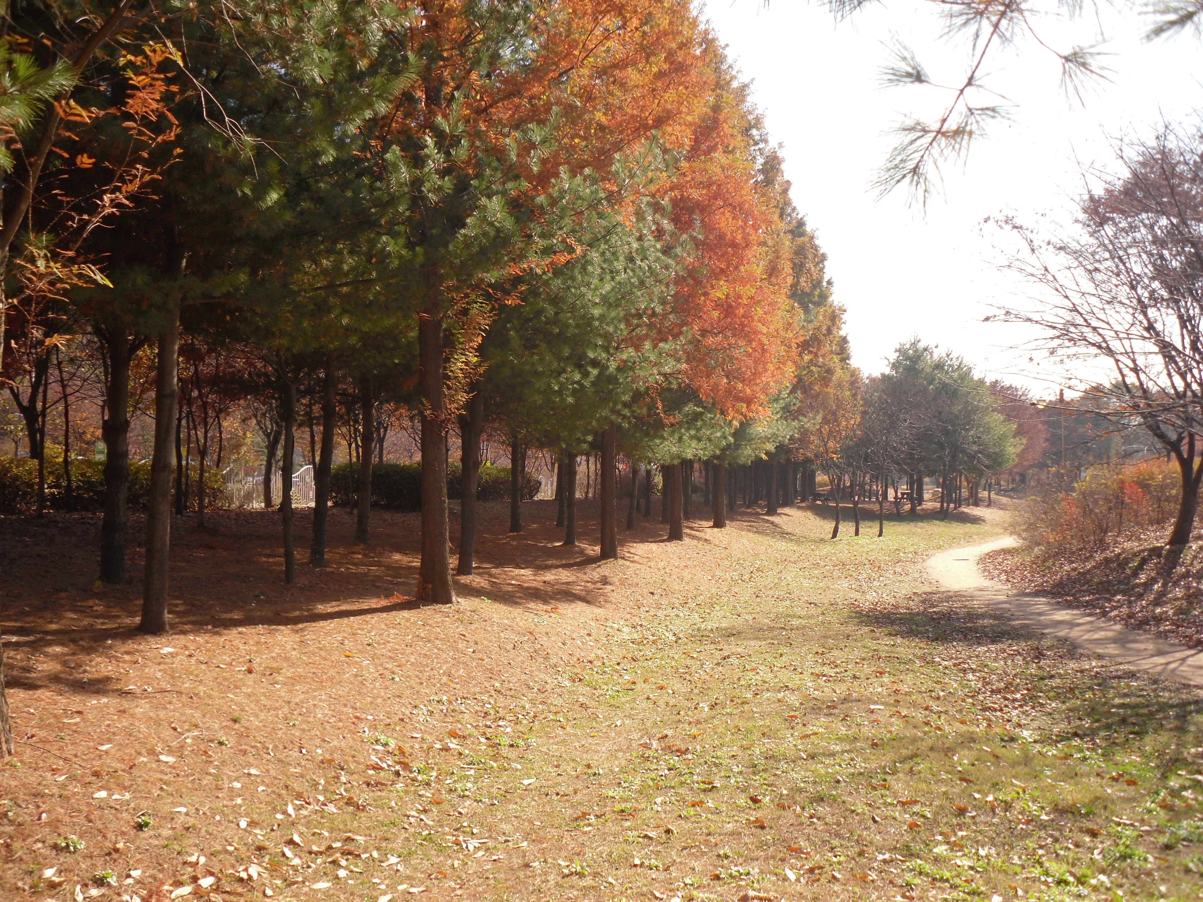 Nanjicheon Park of the World Cup Park in Korea